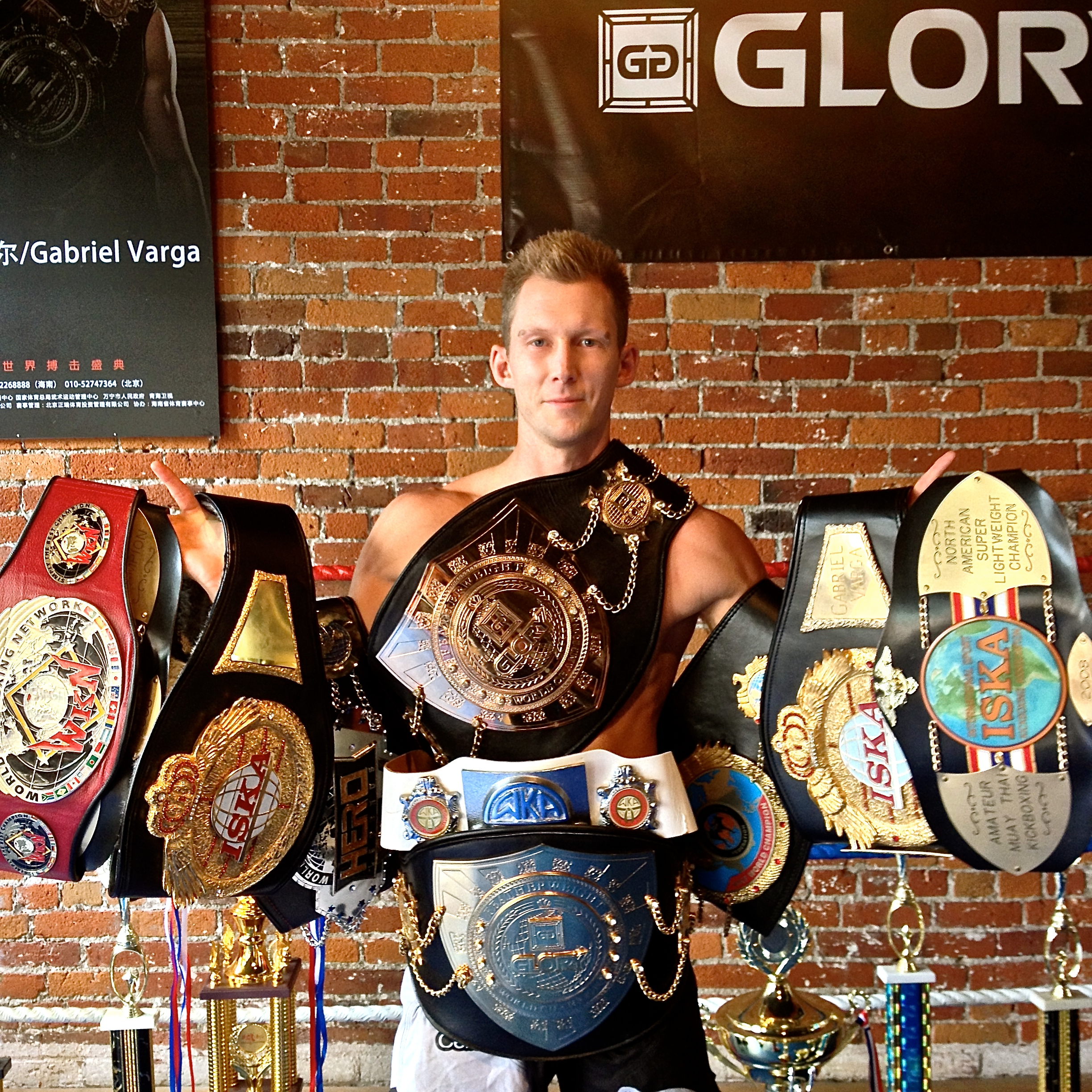 2016 belts